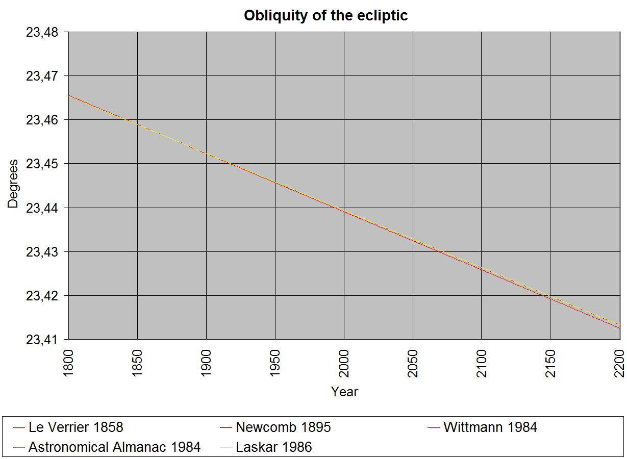 Obliquity of the ecliptic, calculated according the theories of Le Verrier (1858), Newcomb (1895), Wittmann (1984), Astronomical Almanac (1984) und Laskar (1986).